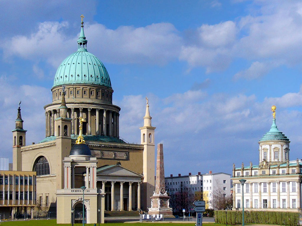 Old Market in Potsdam Germany (historical view from 2005)